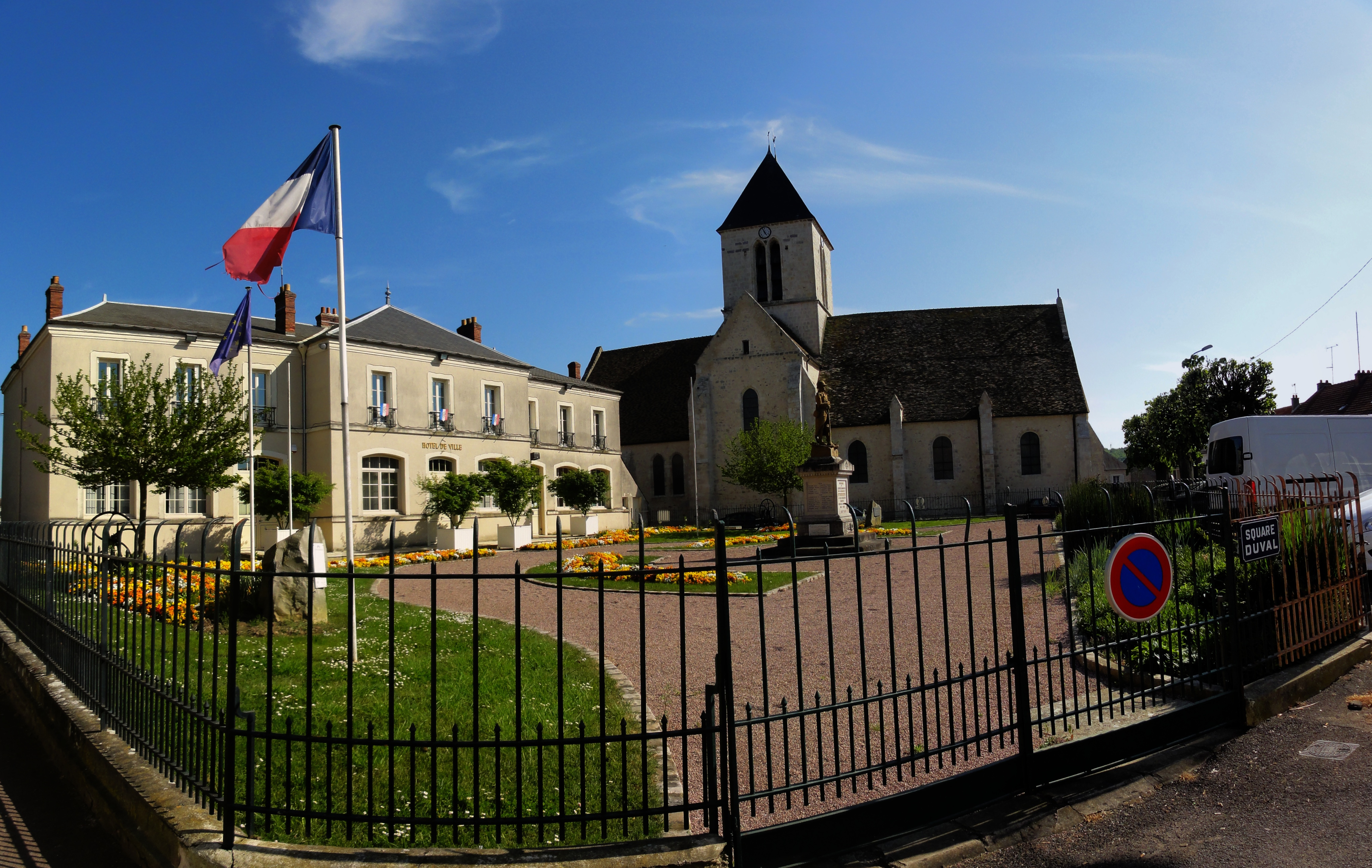 Town hall of Etrechy